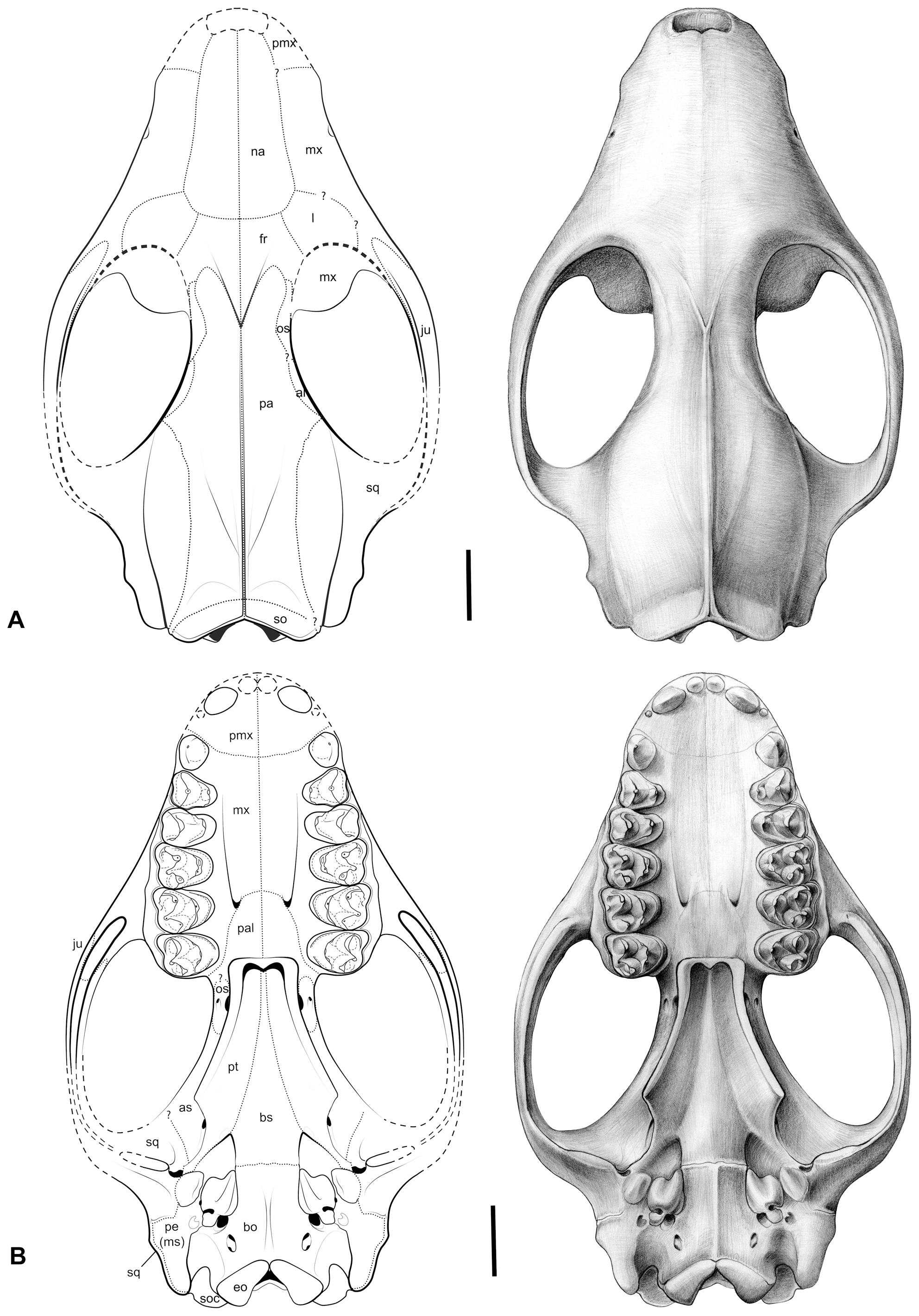 Ocepeia daouiensis, Selandian, Phosphate level IIa of Sidi Chennane, Ouled Abdoun Basin, Morocco O. daouiensis. Reconstruction of the skull. A. dorsal view; B. Ventral view. This reconstruction of the skull is based on the female specimen MNHN.F PM45. The specimen MNHN.F PM54, a male individual, is distinct from MNHN.F PM45 with a more robust skull morphology and presence of a stronger sagittal crest. Drawings: C. Letenneur (MNHN). Scale bar:10 mm.